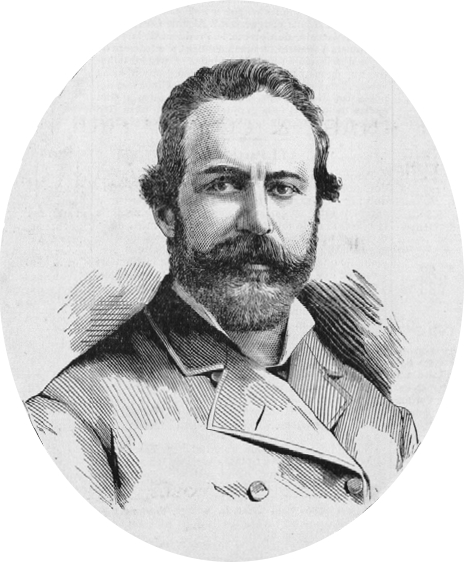 Benet Mercadé i Fàbrega, in La Llumanera de Nova York magazine of January, 1880